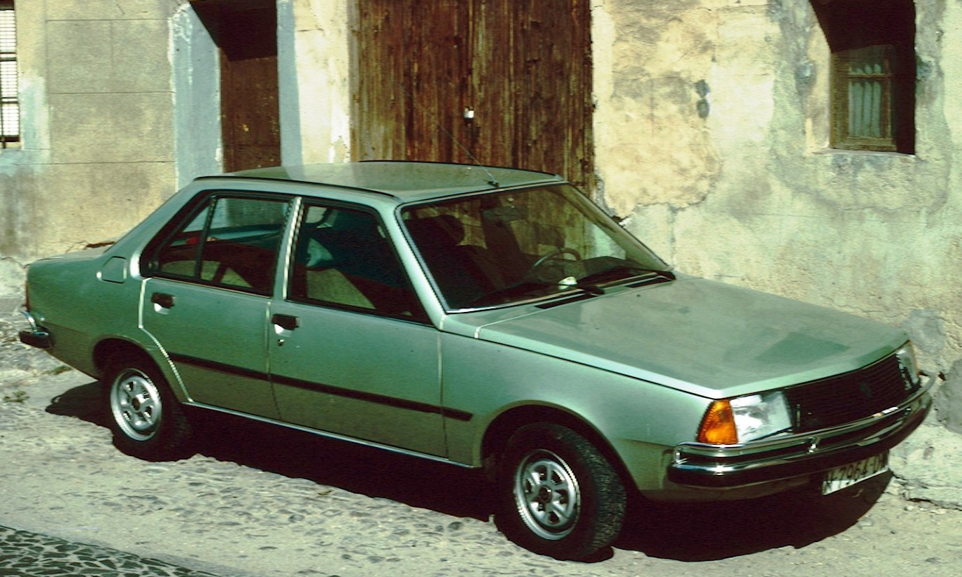 Renault 18 from Madrid in Spain. This one probably was built in Spain